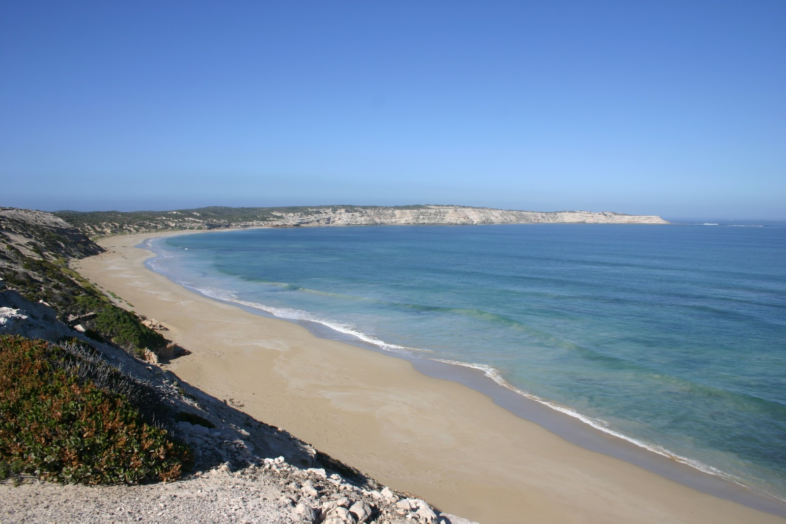 View of Limestone cliffs and beach looking towards Point Avoid in Coffin Bay National Park. I took this photograph in March 2006. Takver ( It is Released under GNU FDL.